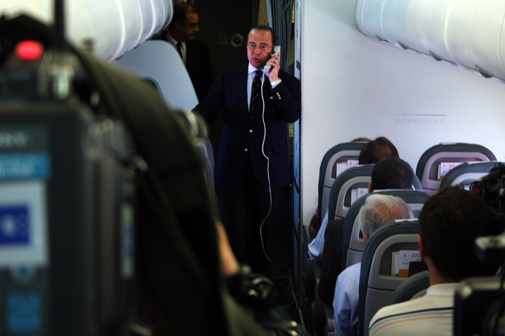 Talking about specs about the "green" flight